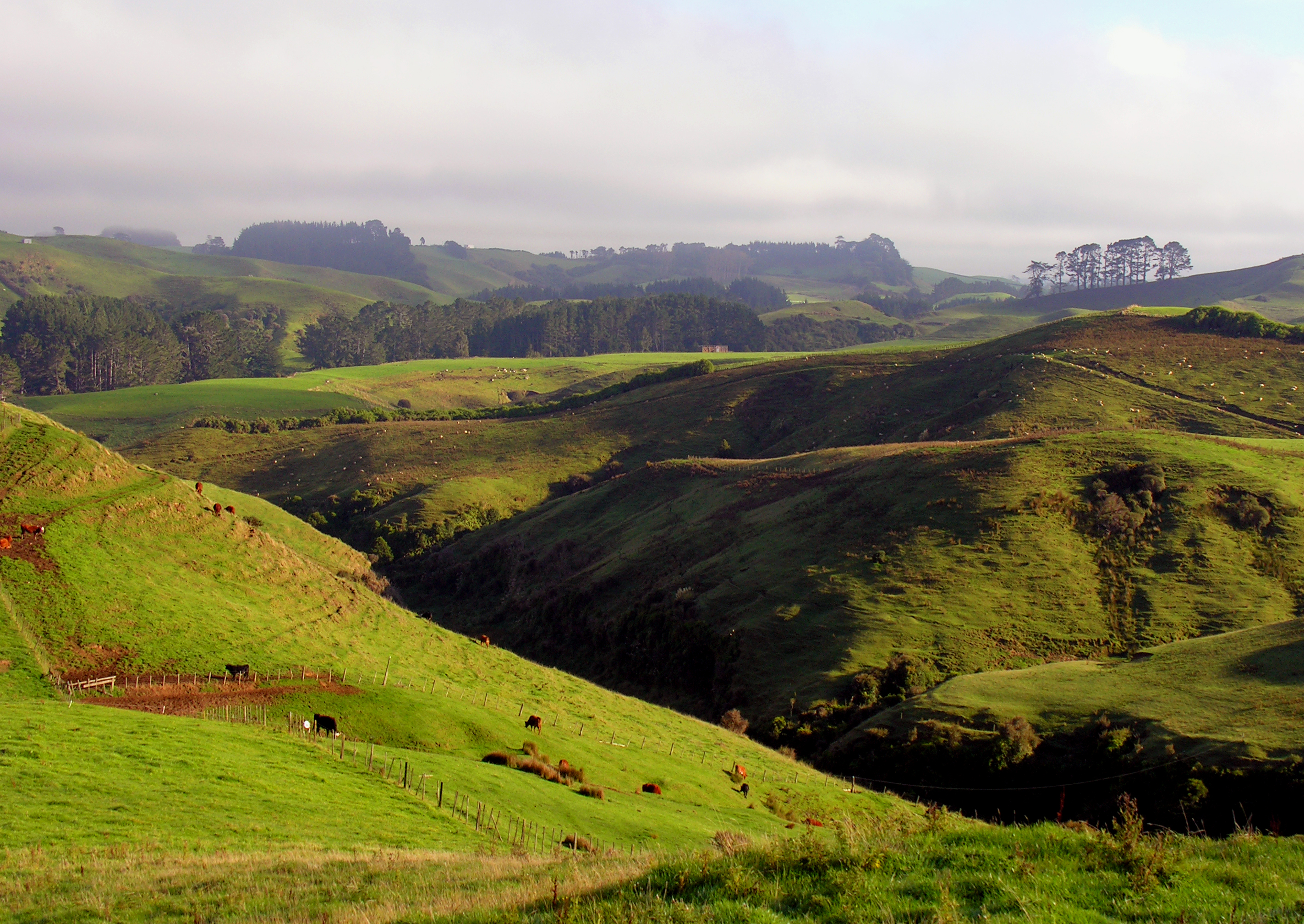 Near Eltham, Taranaki Region.